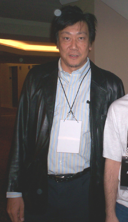 Picture of Hiromichi Tanaka as seen at the Final Fantasy XI Fan Festival 2007 in Anaheim, California in November 2007.